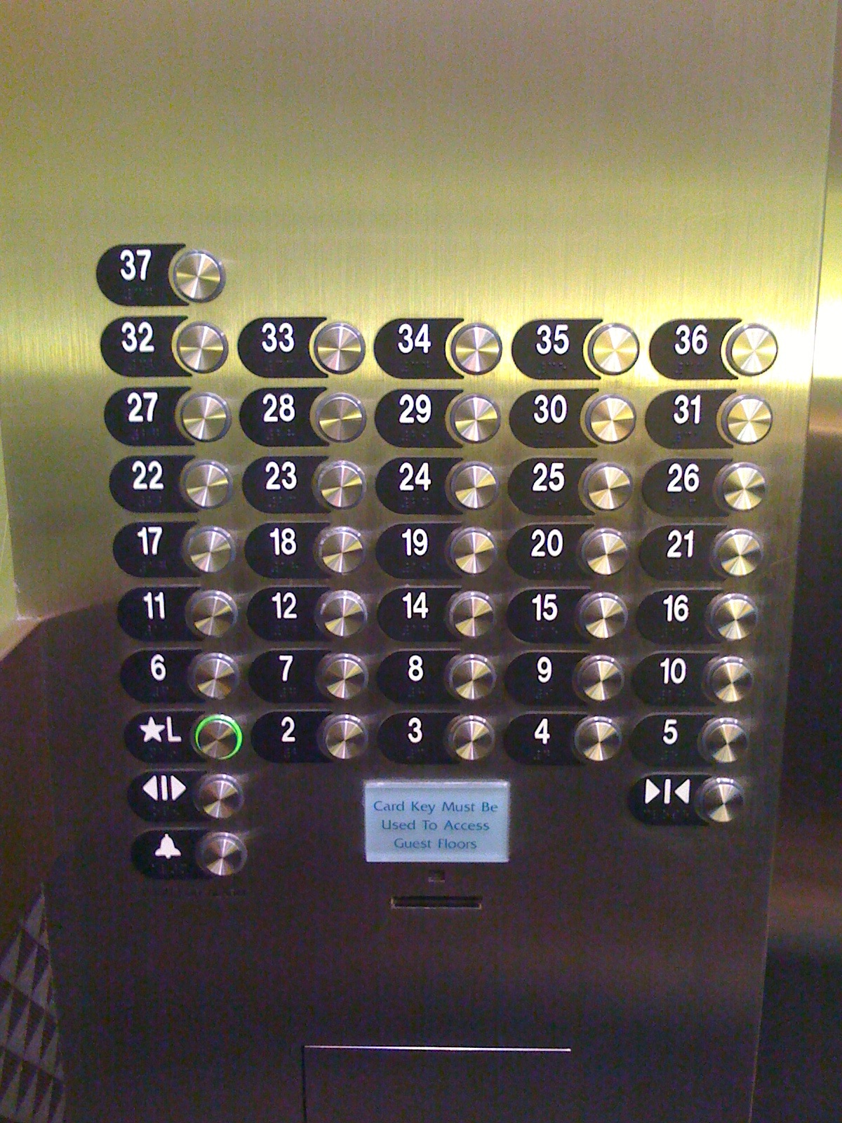 Many buttons.